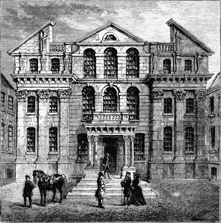 A black and white engraving showing the facade of Monmouth House